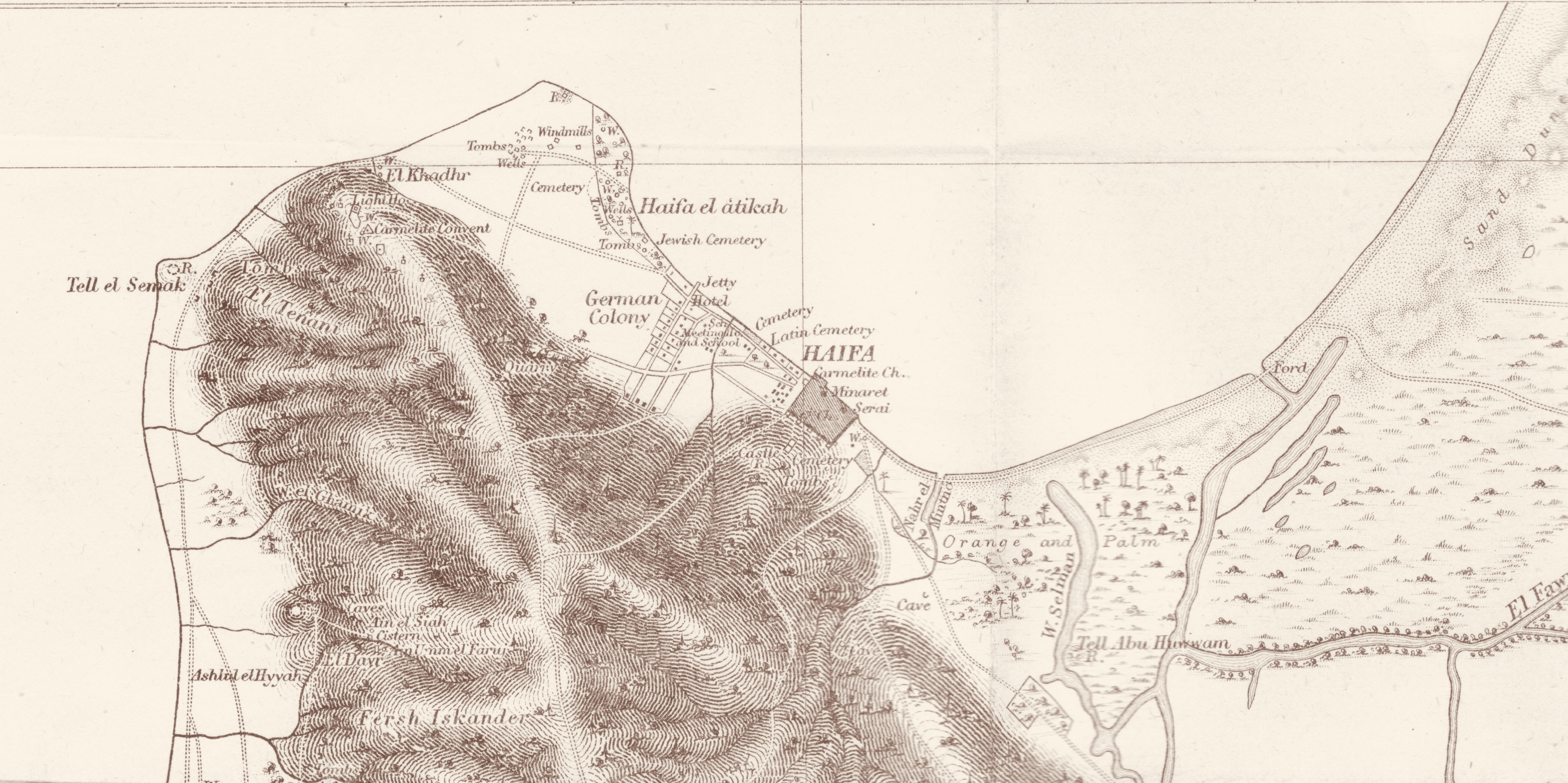 Palestine Exploration Fund map of Haifa, 1875